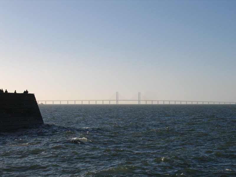 Oresund Bridge from Malmo,Sweden